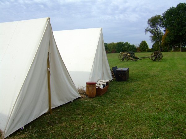 Tents at the Fort Davidson Living History event, September 30, 2006. Photo by Valerie Holifield